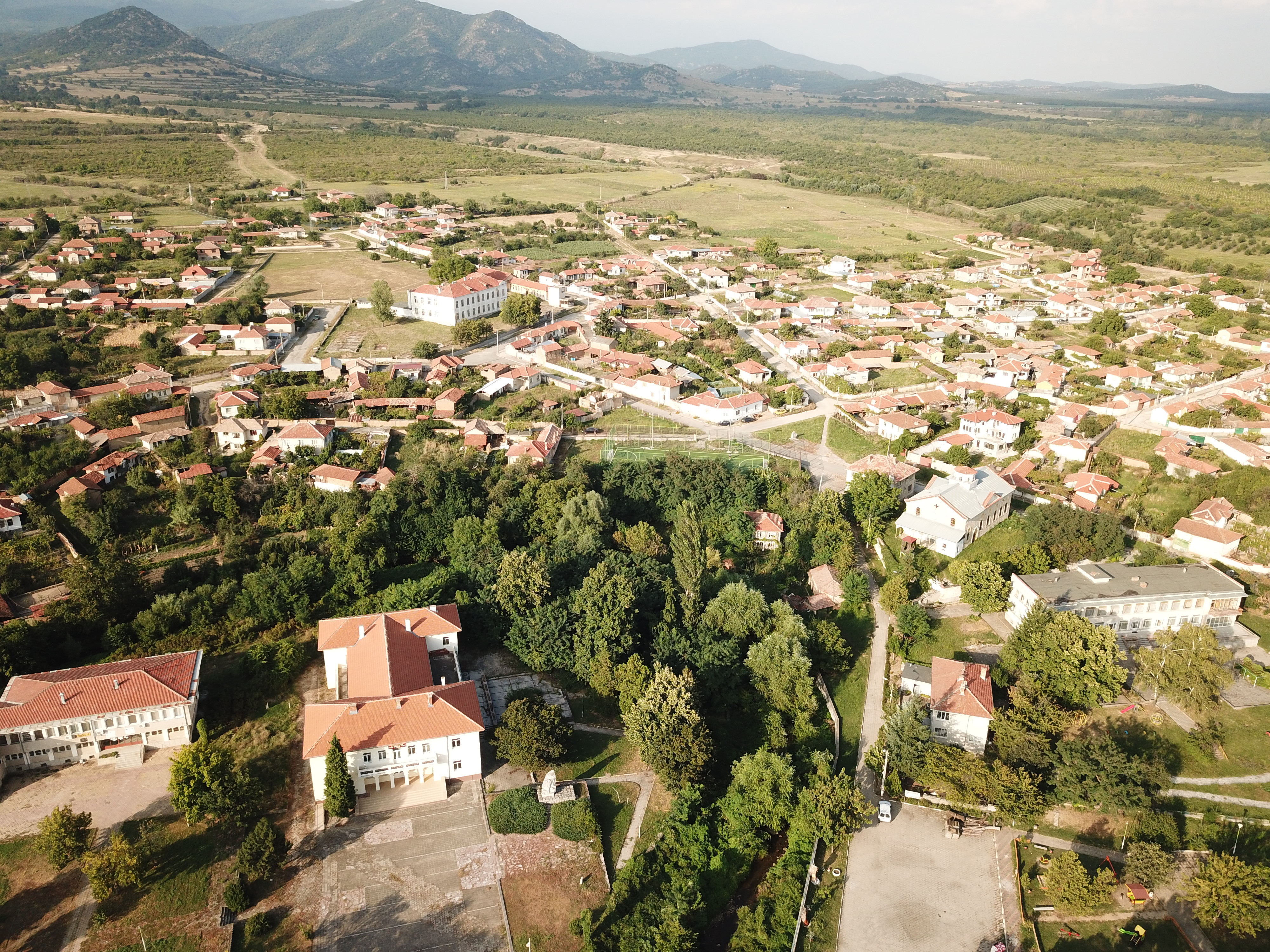 Starosel